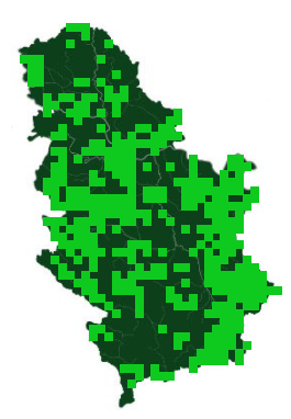 Pyrgus malvae - map of distribution in Serbia